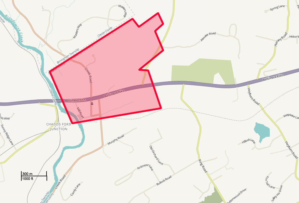 Map of the Chadds Ford Historic District in Chadds Ford Township, Pennsylvania, United States, showing approximate district boundaries. District boundaries are derived from the NRHP registration and PA CGRIS information . This map of Chadds Ford Township, Delaware County, Pennsylvania was created from OpenStreetMap project data, collected by the community. This map may be incomplete, and may contain errors. Don't rely solely on it for navigation.